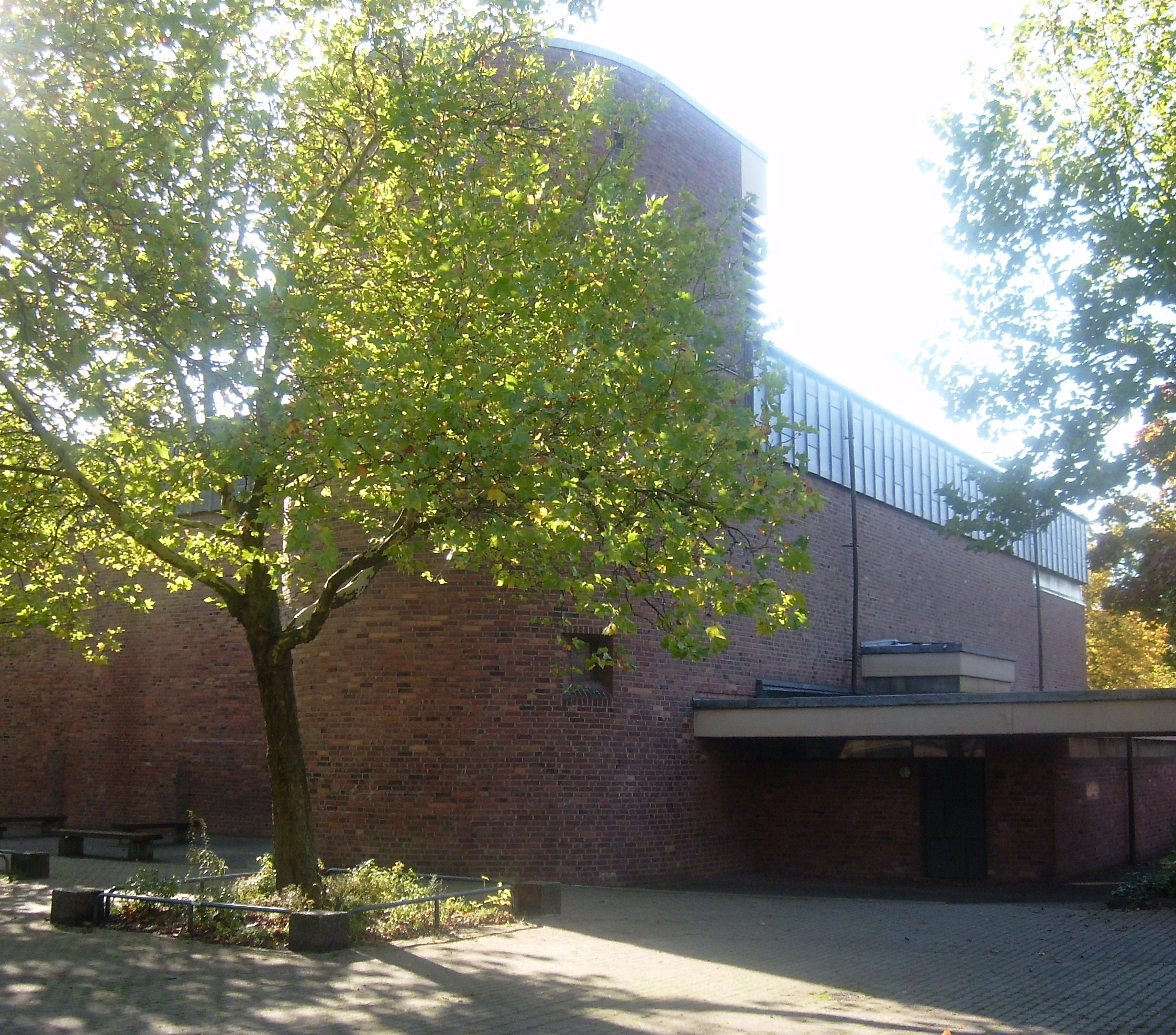 Church St. Adelheid in Cologne-Neubrück